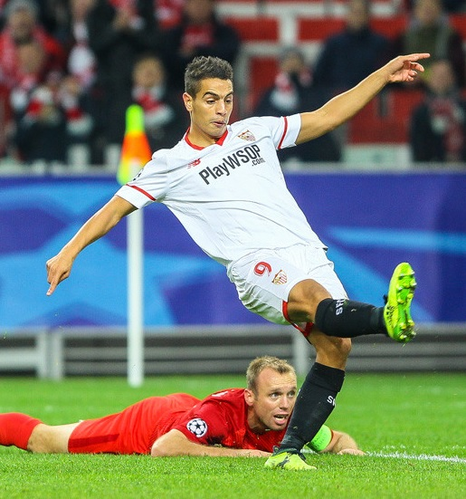 Wissam Ben Yedder with Sevilla FC in a Champions League game against Spartak Moscow.